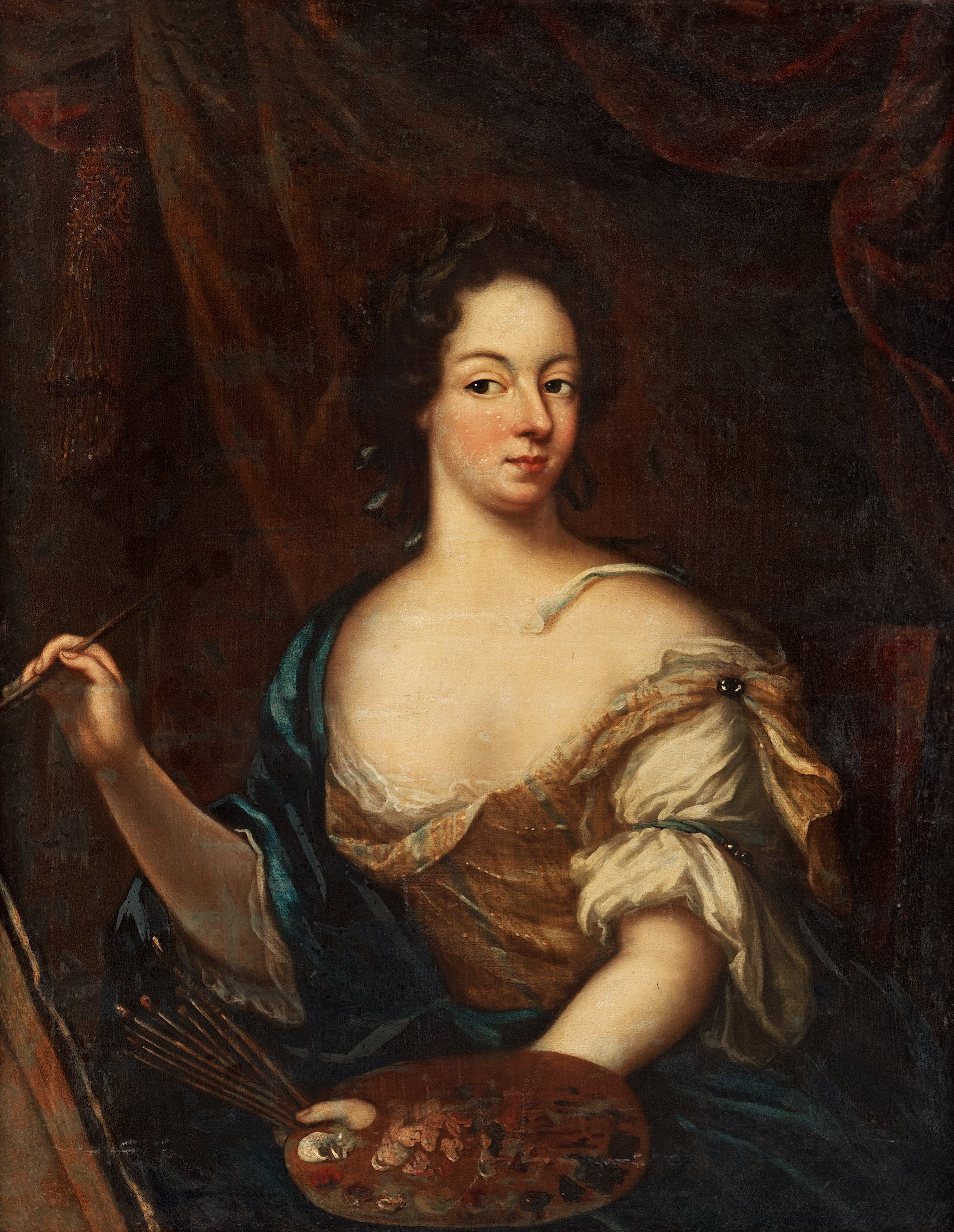 Self-portrait with palette and brushes.